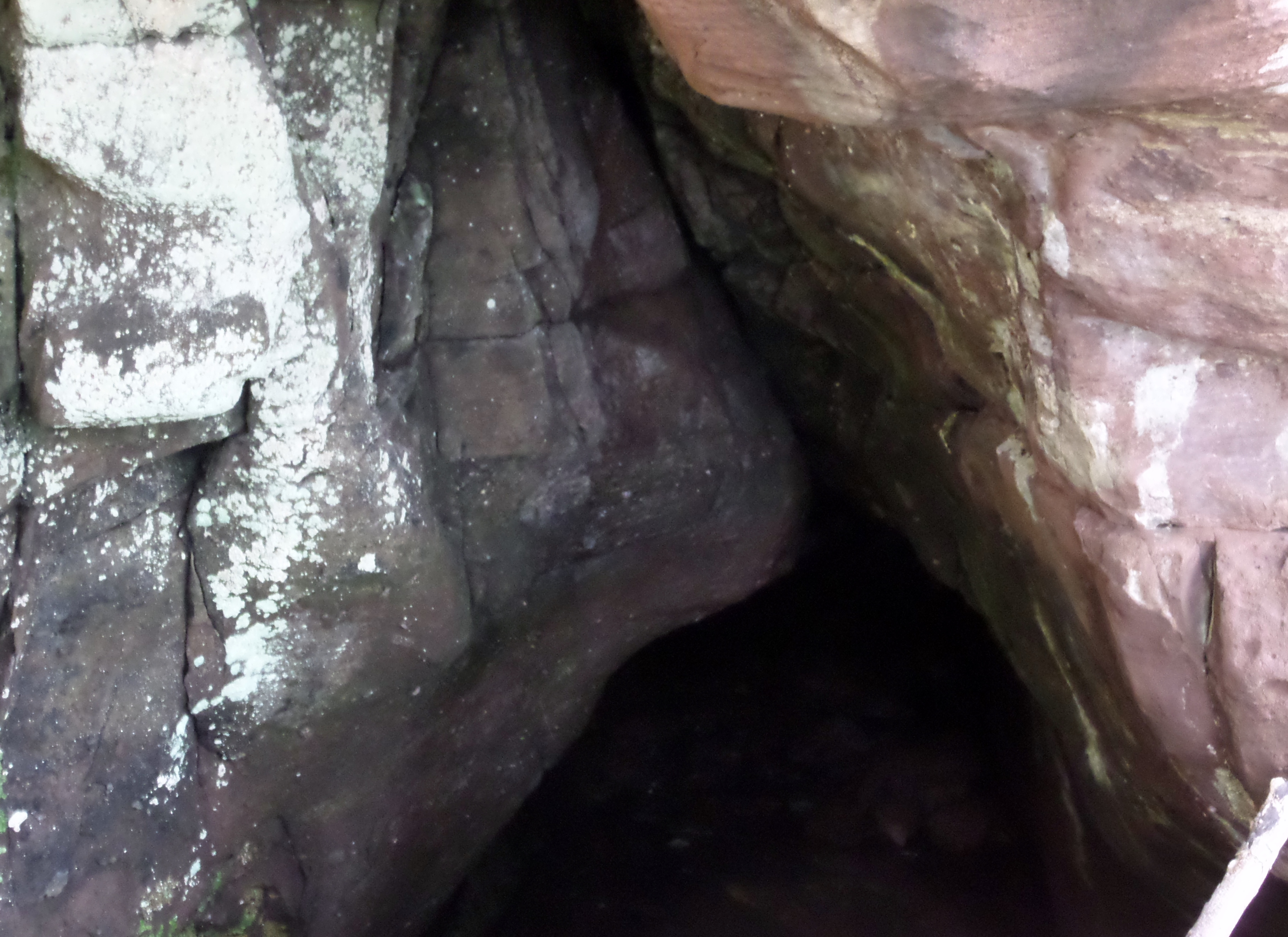 The Holy Cave entrance, Hawking Craig Wood, Hunterston, North Ayrshire. Once used by St Mungo of Glasgow.